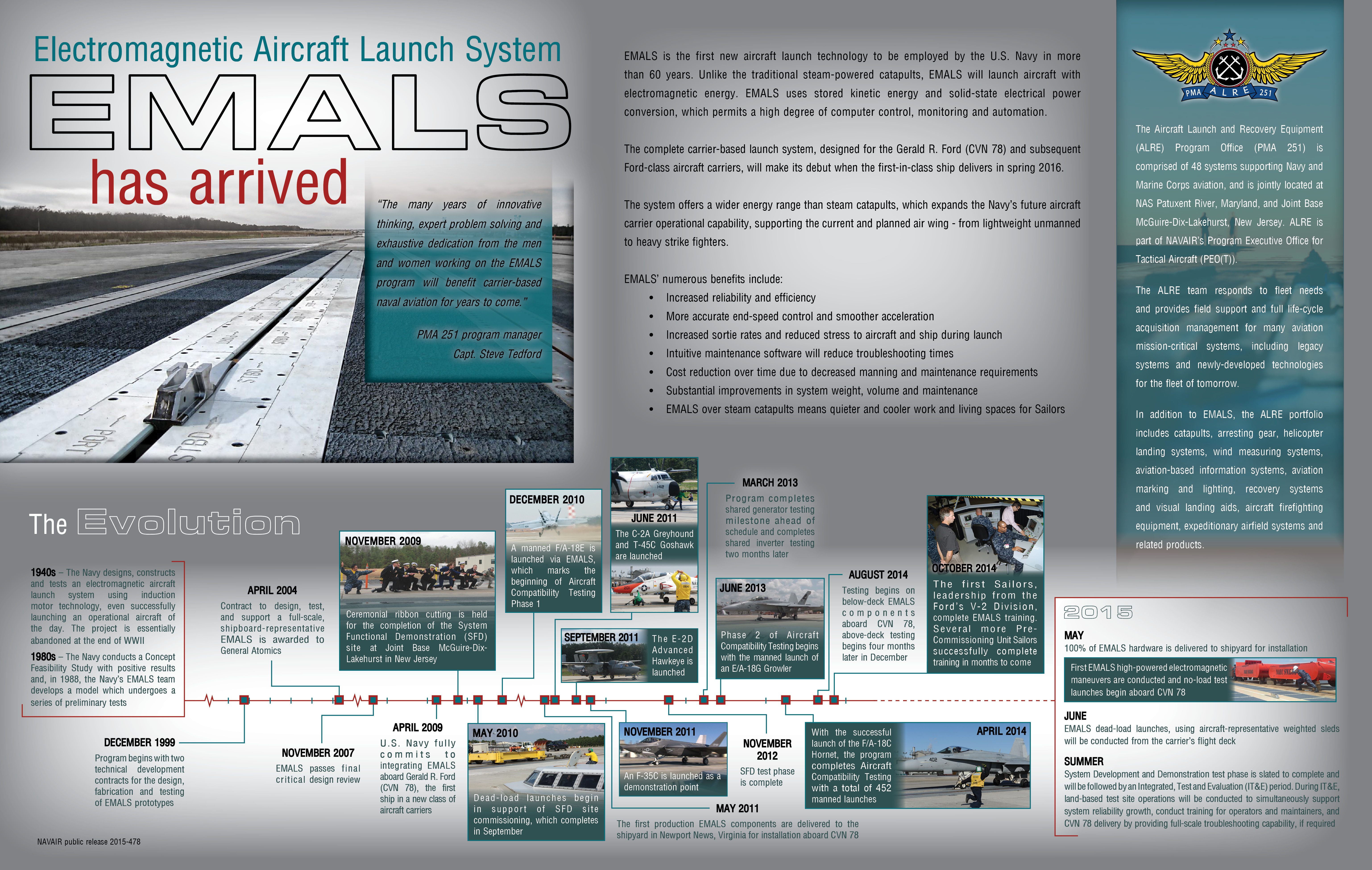 An infographic showing a development timeline for the U.S. Navy's Electromagnetic Aircraft Launch System (EMALS).